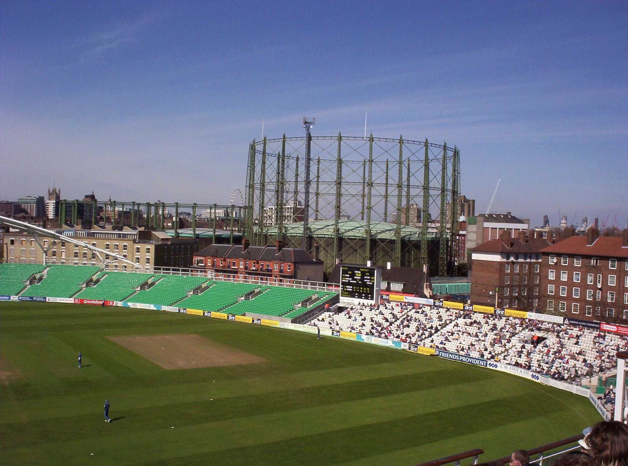 The famous gasholders at the Oval, as photographed by self on 17 April 2005. The London Eye is visible to the left of the taller gasholder.